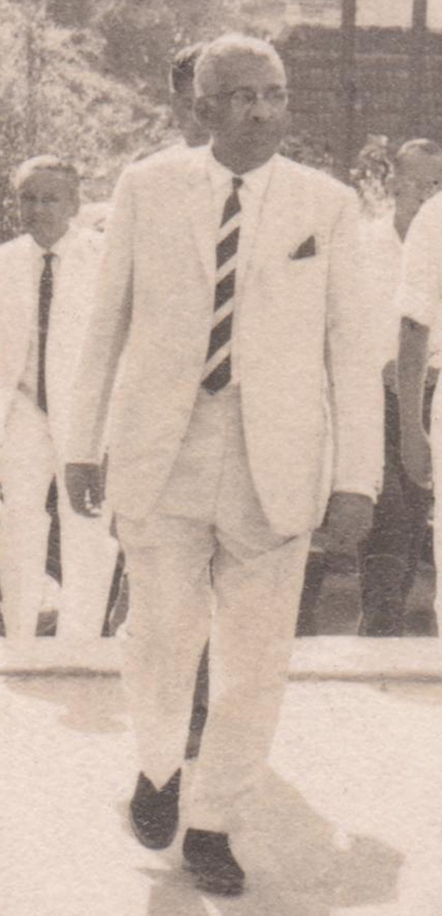 Dudley Shelton Senanayaka As The Prime Minister of Ceylon.